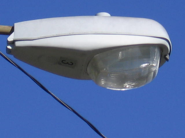 History of street lighting - Crouse-Hinds, OVS - Rare 35 watt version found in Canton, Massachusetts